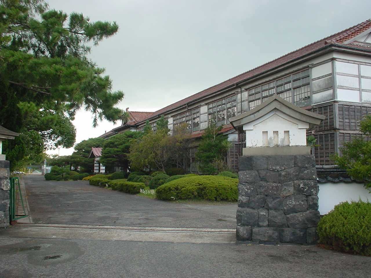 Meirinkan School grounds in Hagi, Yamaguchi, Japan.